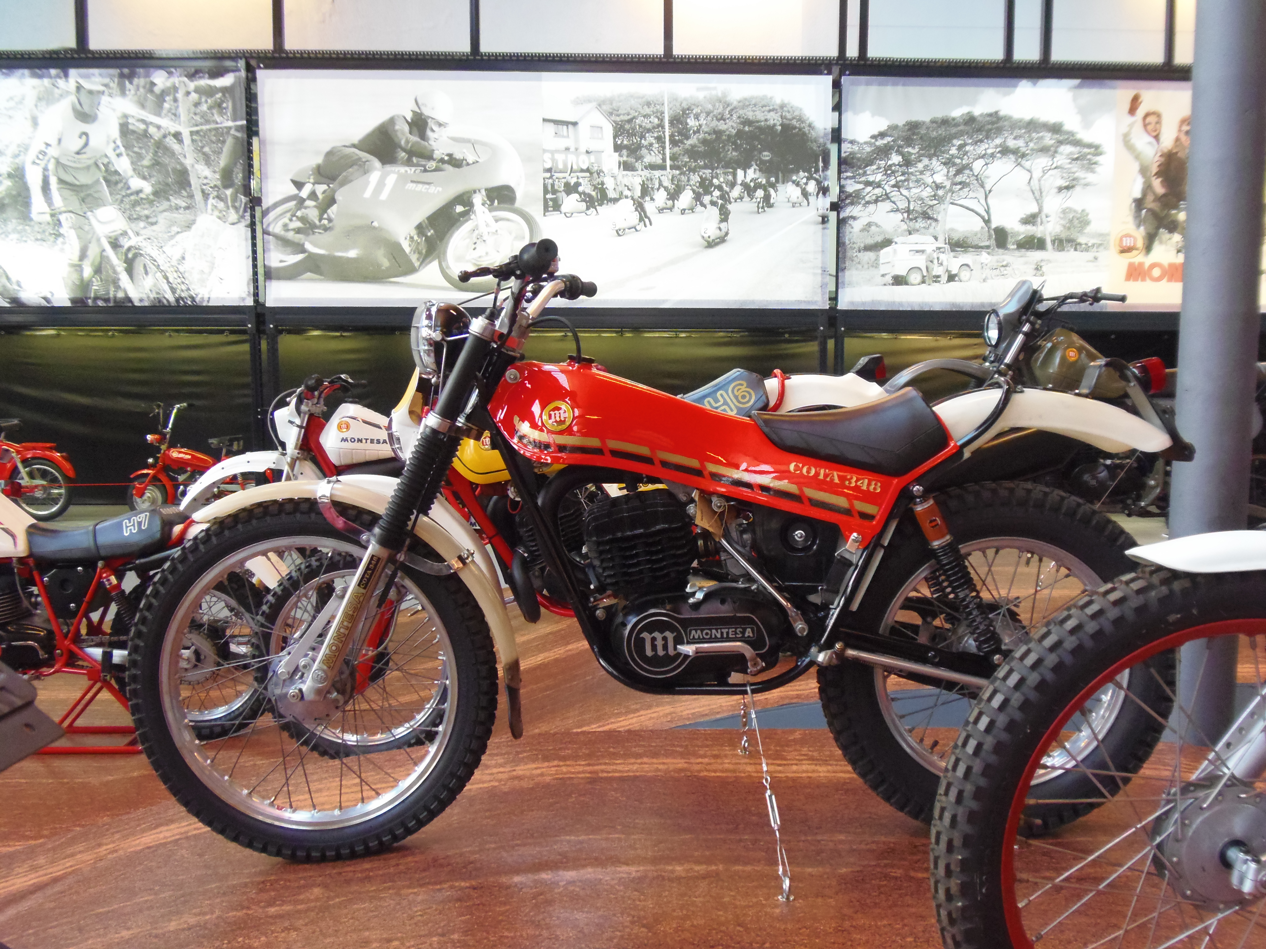 Montesa Cota 348, 1977